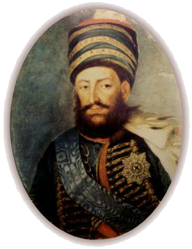 King Erekle II